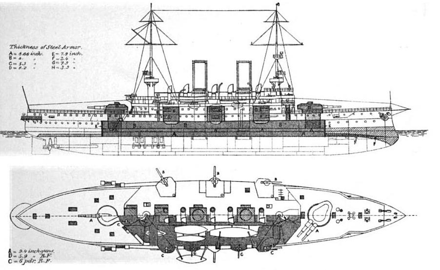 Line-drawing of the Austro-Hungarian Habsburg-class battleship design